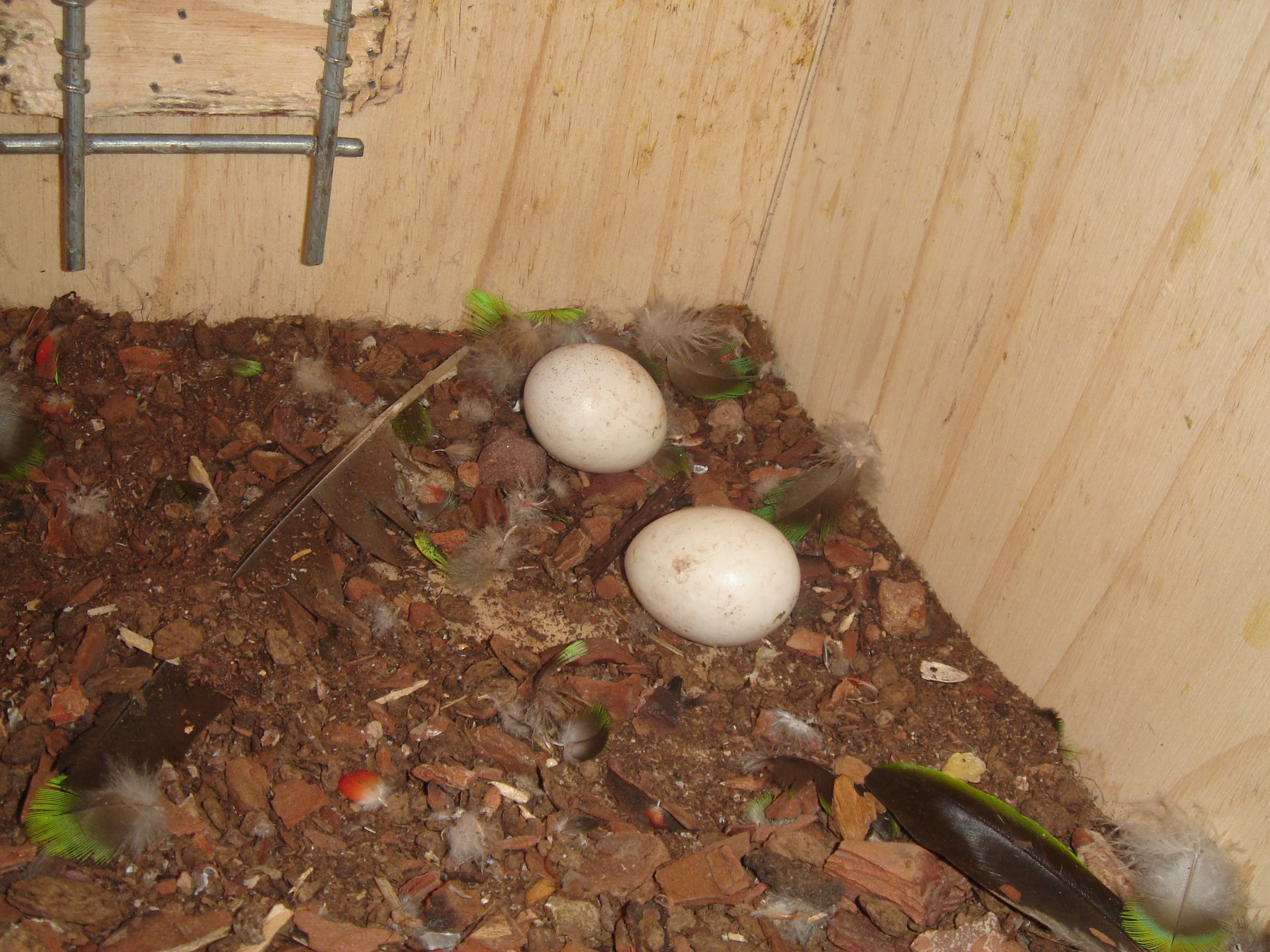 Photograph of two eggs of Jardine's Parrot (Poicephalus gulielmi)